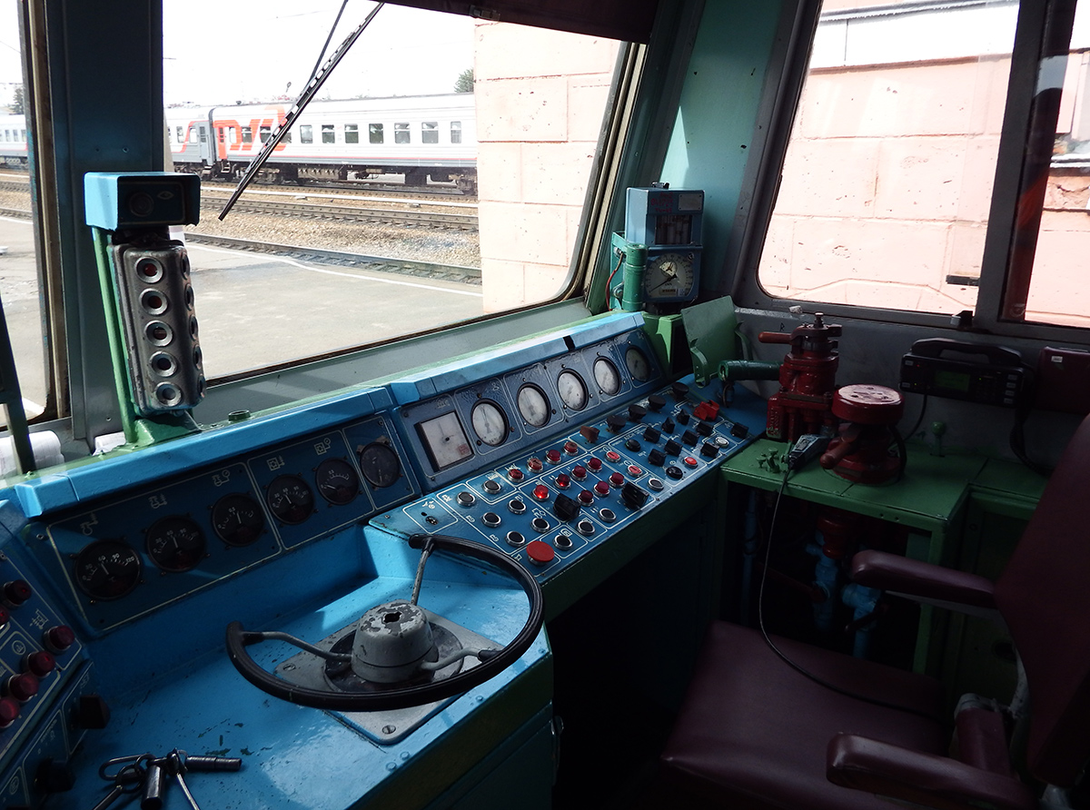 Driver's cabin of diesel railcar ACh2-089